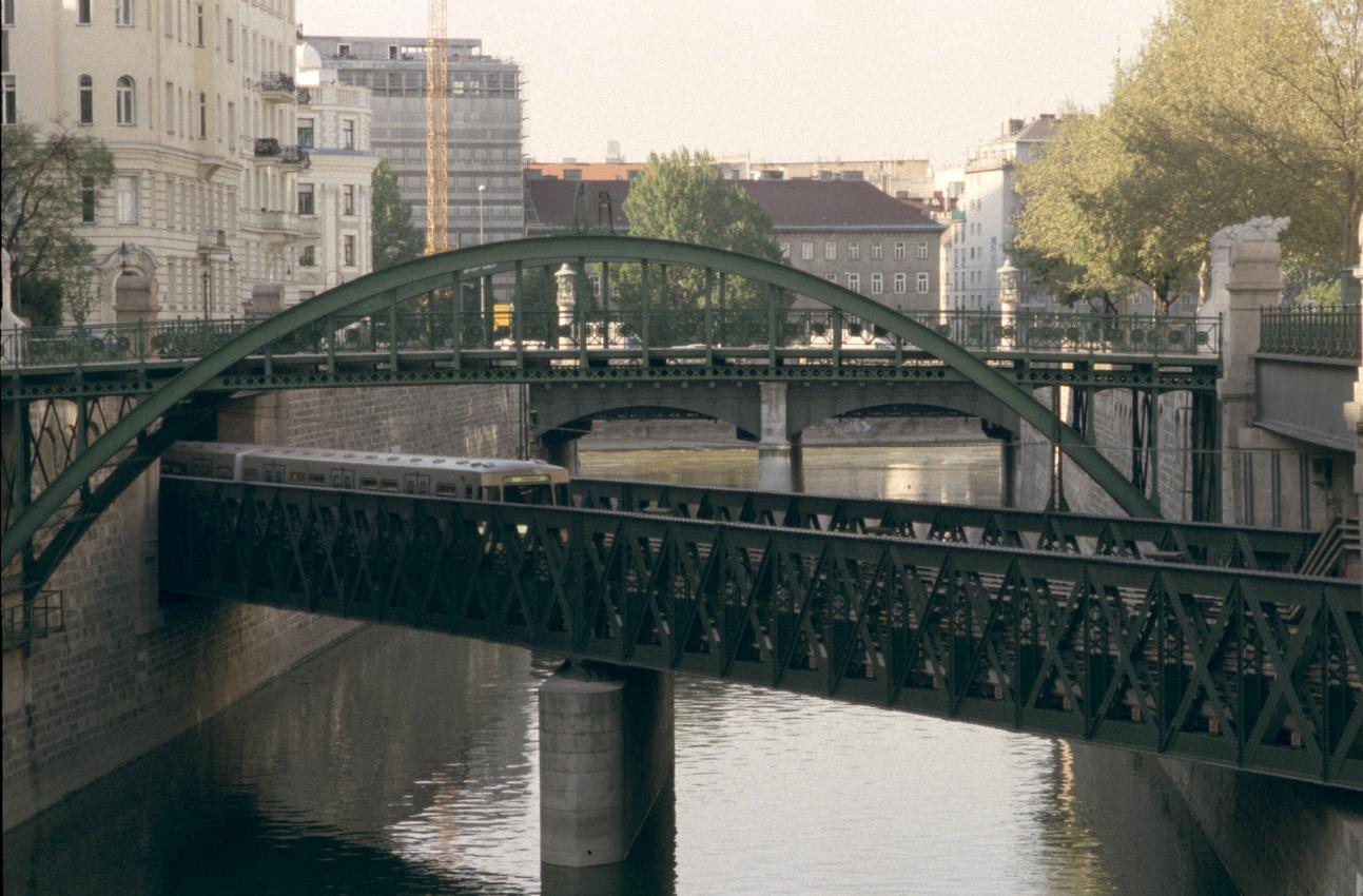 Zollamtsbruecke (Bridge) of the Vienna U-Bahn across the mouth of Wien River